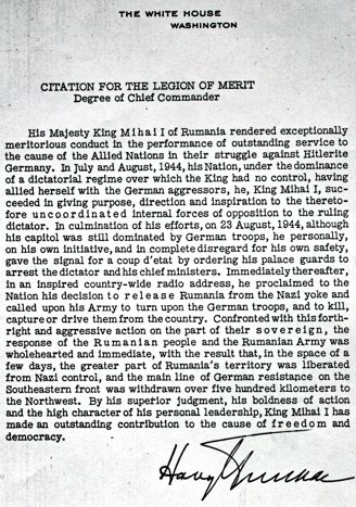 Citation for the Legion of Merit, Chief Commander Degree for HM King Michael I of Romania, 1946. Signed by U.S. President Harry S. Truman.